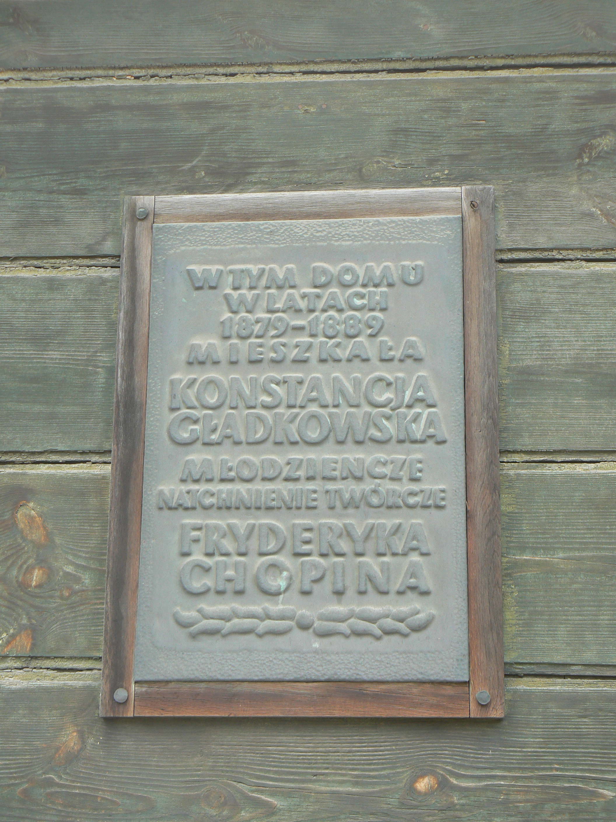 Plaque in tribute to Konstancja Gładkowska on the oldest wooden building in Skierniewice, Poland.